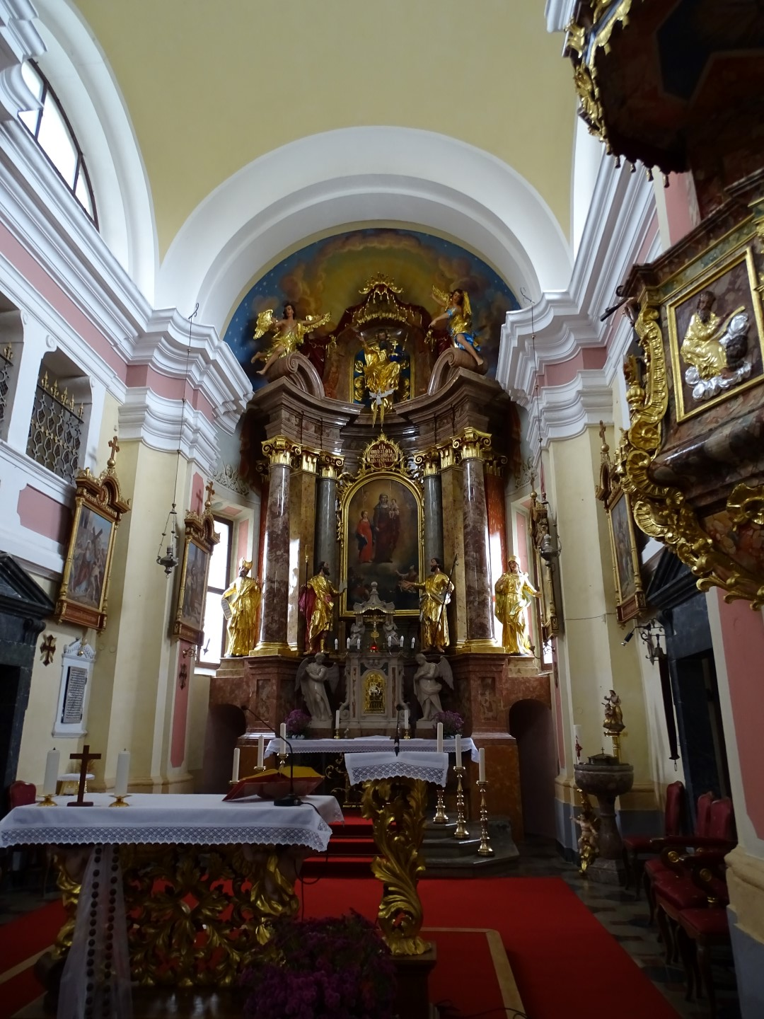 Church of St. Anna, Tunjice, Slovenia - altar